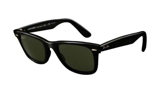 Photo of a Ray Ban sunglasses